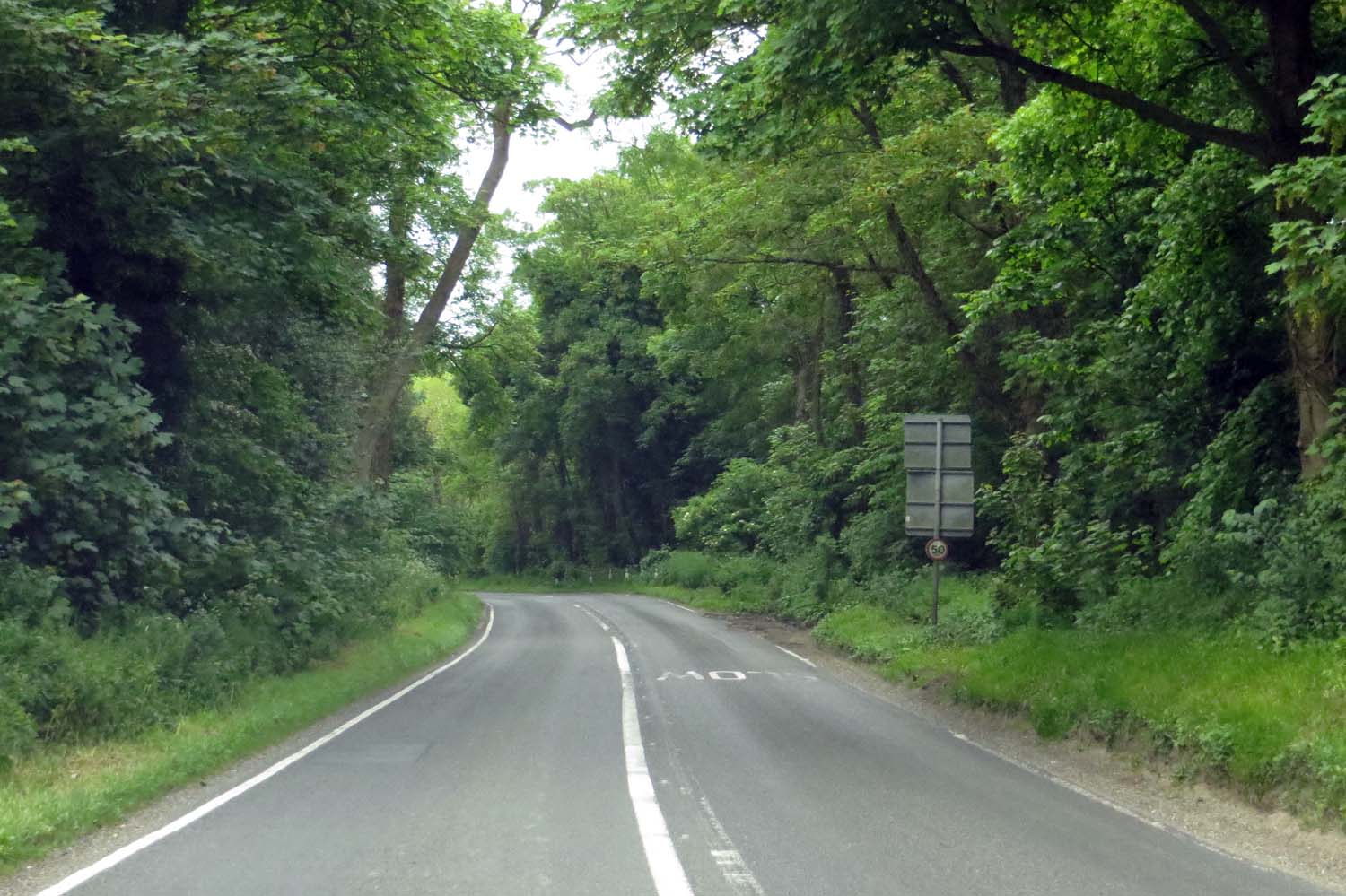 The A4074 leaving Chazey Heath